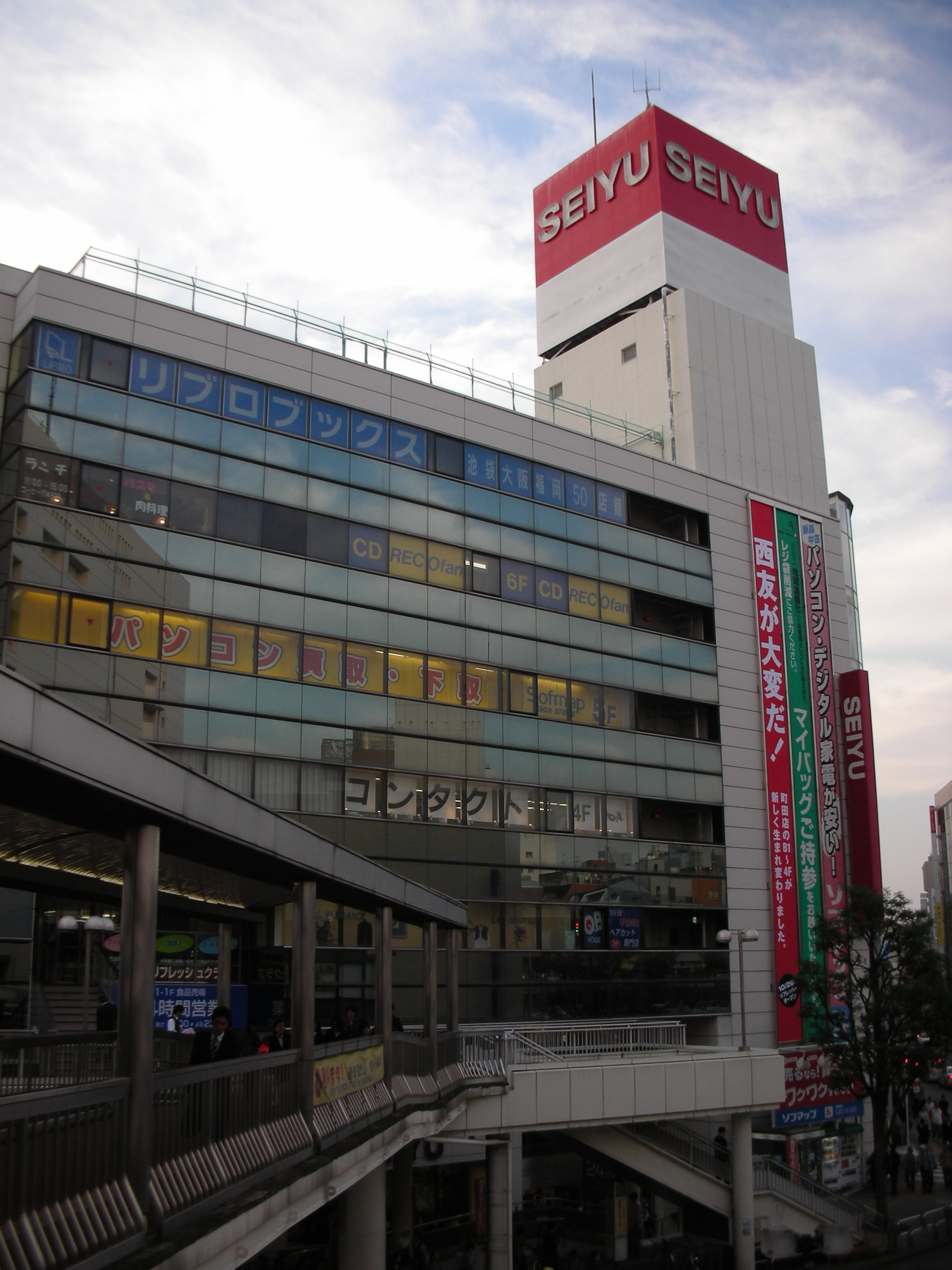 Seiyu machida